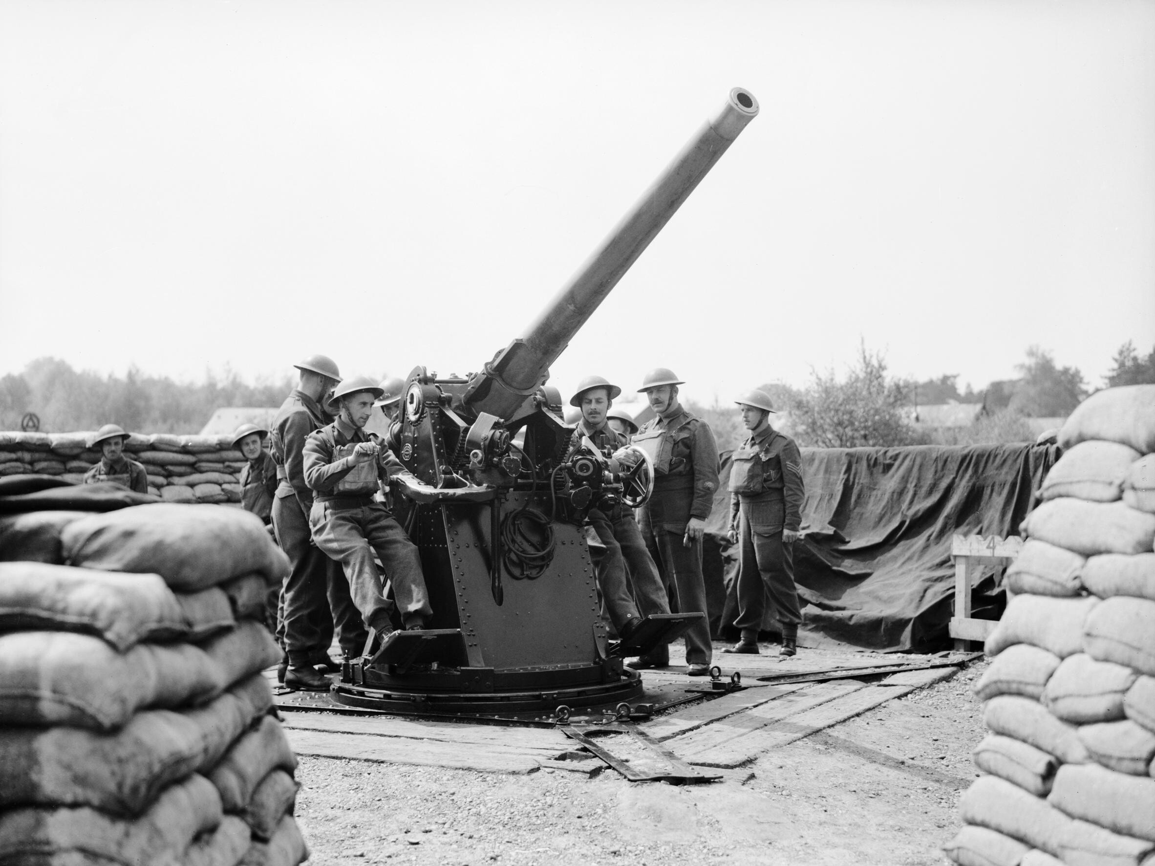 3-inch gun crew of 303rd Battery, 99th Anti-Aircraft Regiment, Royal Artillery, in action at Hayes Common in Kent, May 1940. 3-inch gun crew of 303rd Battery, 99th Anti-Aircraft Regiment, Royal Artillery, in action at Hayes Common in Kent, May 1940.